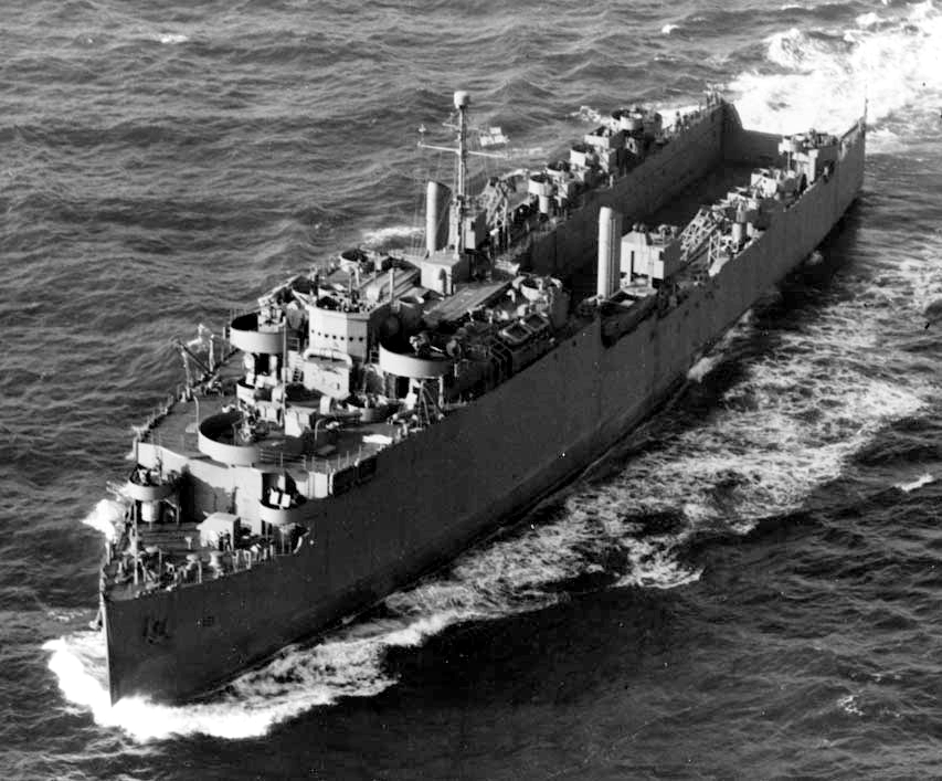 The Royal Navy dock landing ship HMS Oceanway (F143) underway off Norfolk, Virginia (USA), in April 1944.